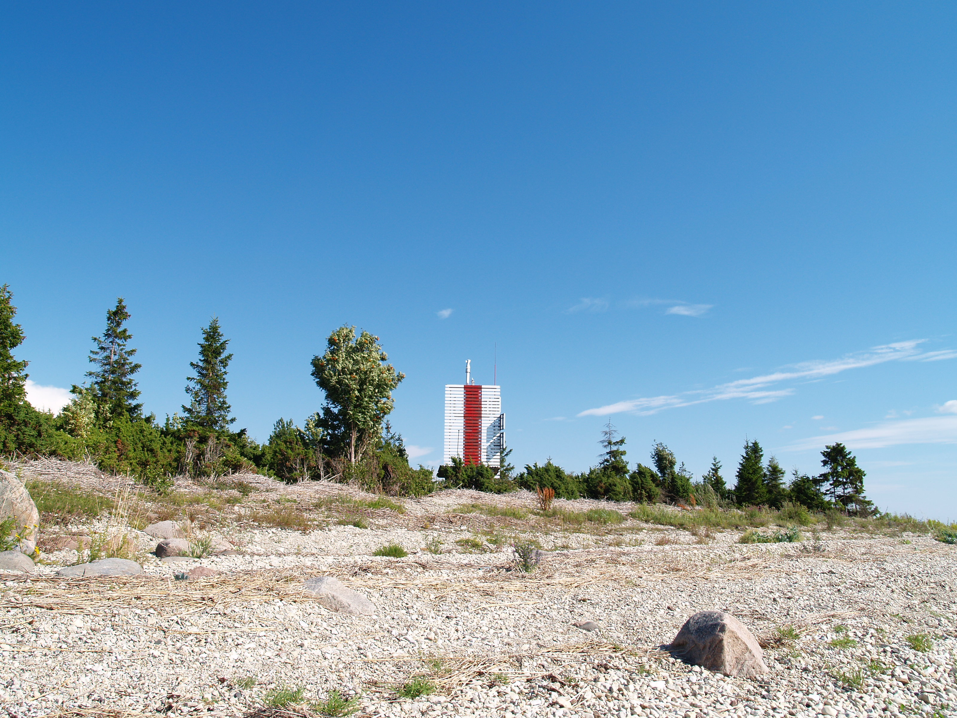 Kessu lower light beacon.